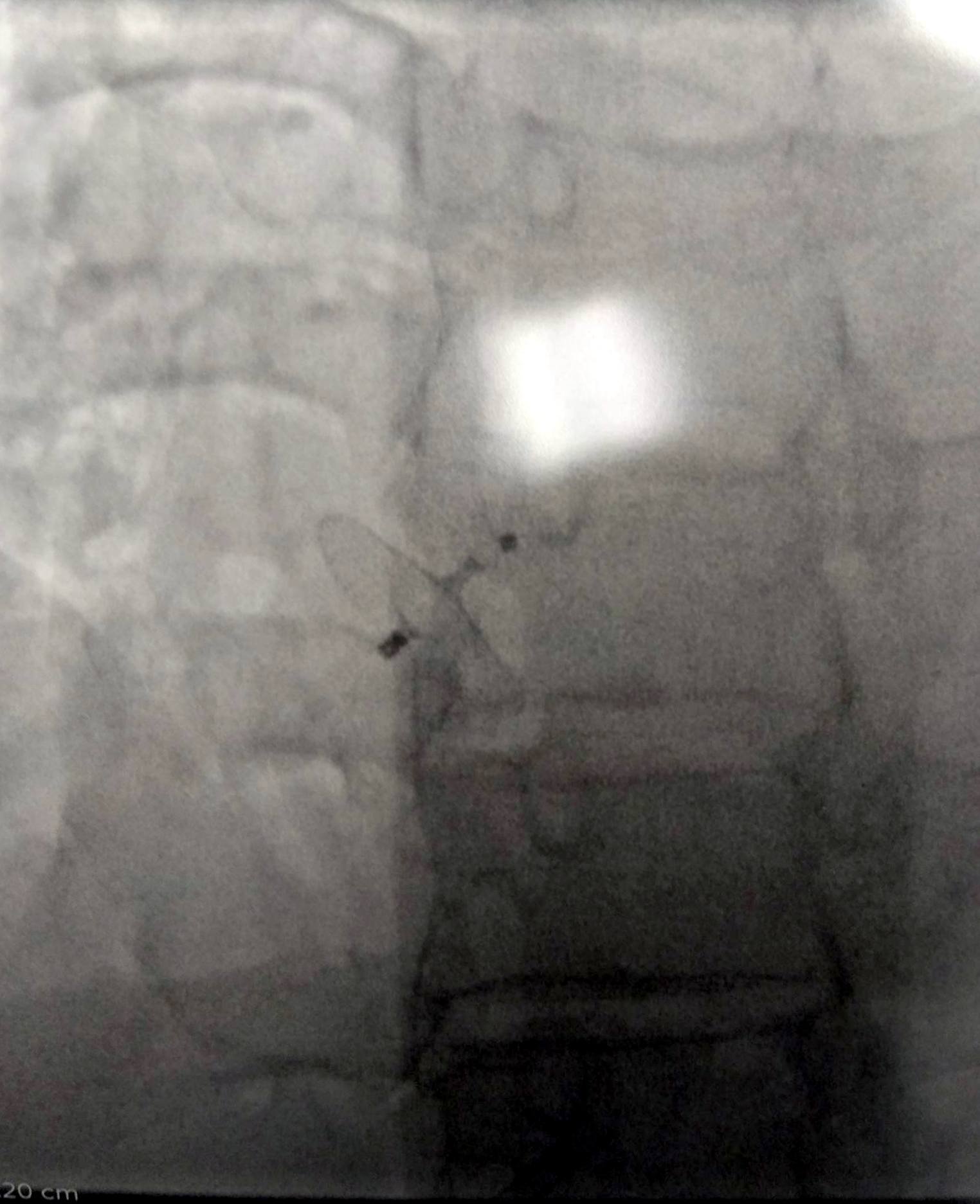 Image of an Amplazer titanium mesh Patent Foramen Ovale (PFO) Occulder that has been surgically implanted in the heart of a 34yr old female.